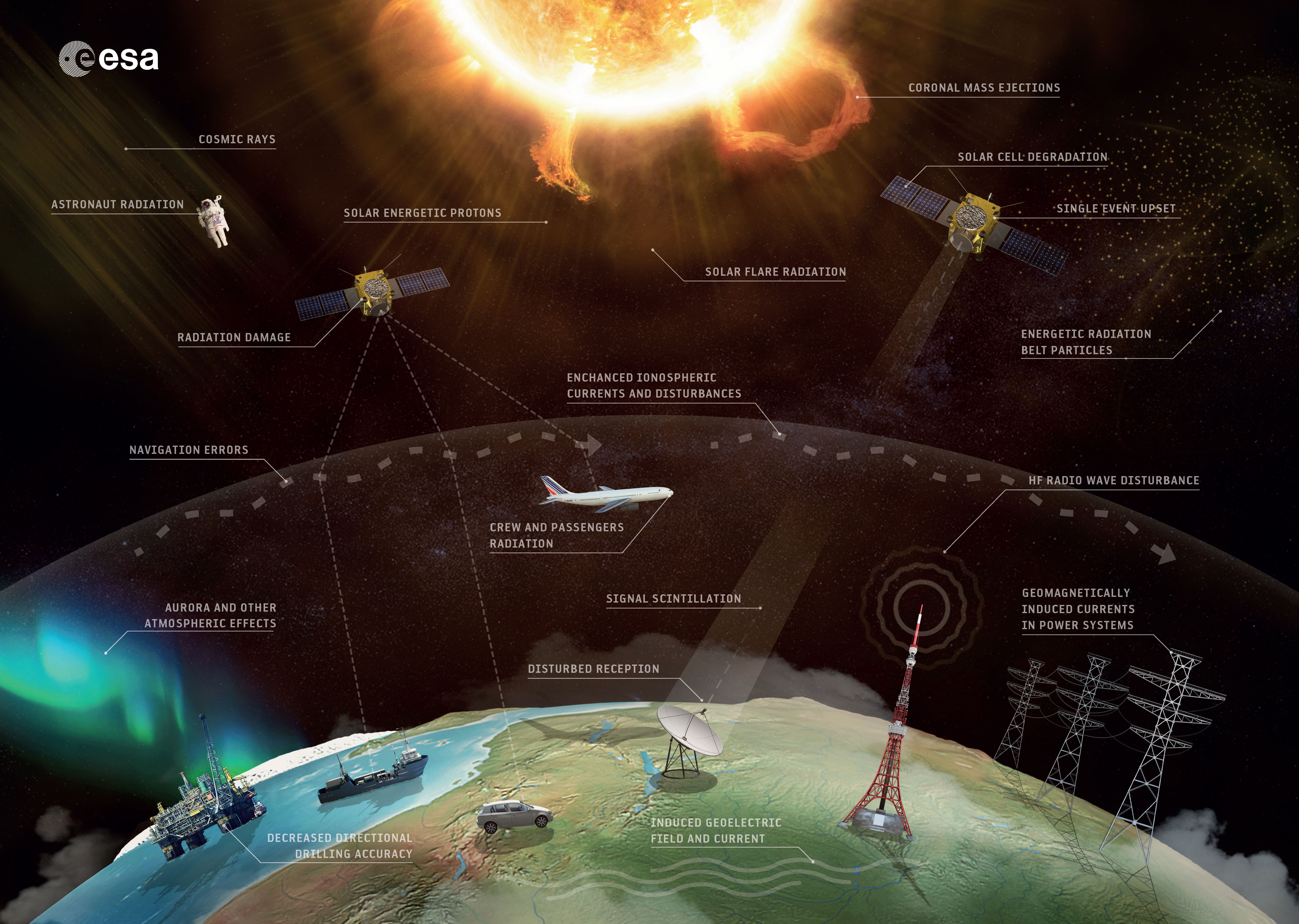 Space weather refers to the environmental conditions in space as influenced by solar activity. In Europe's economy today, numerous sectors can potentially be affected by space weather. These range from space-based telecommunications, broadcasting, weather services and navigation, through to power distribution and terrestrial communications, especially at northern latitudes. One significant influence of solar activity is seen in disturbances in satellite navigation services, like Galileo, due to space weather impacts on the upper atmosphere. This in turn can affect aviation, road transport, shipping and any other activities that depend on precise positioning. For satellites in orbit, the effects of space weather can be seen in the degradation of spacecraft communications, performance, reliability and overall lifetime. For example, the solar panels − often called 'wings' − that convert sunlight to electrical power on board most spacecraft will steadily generate less power over the course of a mission, and this degradation must be taken into account in designing the satellite. In addition, increased radiation due to space weather may lead to increased health risks for astronauts participating in human space missions, both today on board the International Space Station (ISS) in low Earth orbit and in future for human voyages to the Moon or Mars. On Earth, the aviation sector − commercial airlines − may also experience damage to aircraft electronics and increased radiation doses to crews (at long-haul aircraft altitudes) during large space weather events. Space weather effects on ground can include damage and disruption to power distribution networks, increased pipeline corrosion and degradation of radio communications. More information ESA SSA - Space Weather Segment